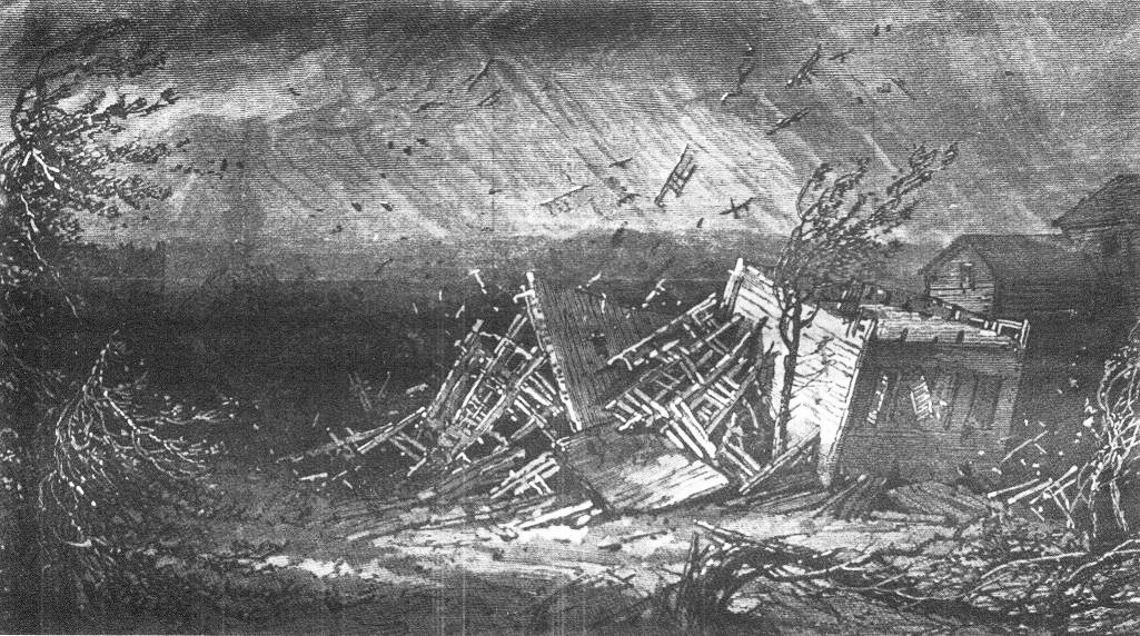 Artist's conception of tornado damage from the Wallingford Tornado of 1878. Illustration first published in Harper's Weekly, 1878.